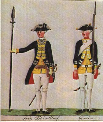 Eighteenth-century illustration of two Hessian soldiers: Erste Officiers [= Offiziers] Unif[orm] ("first officer's uniform") & Gemeiner ("private").